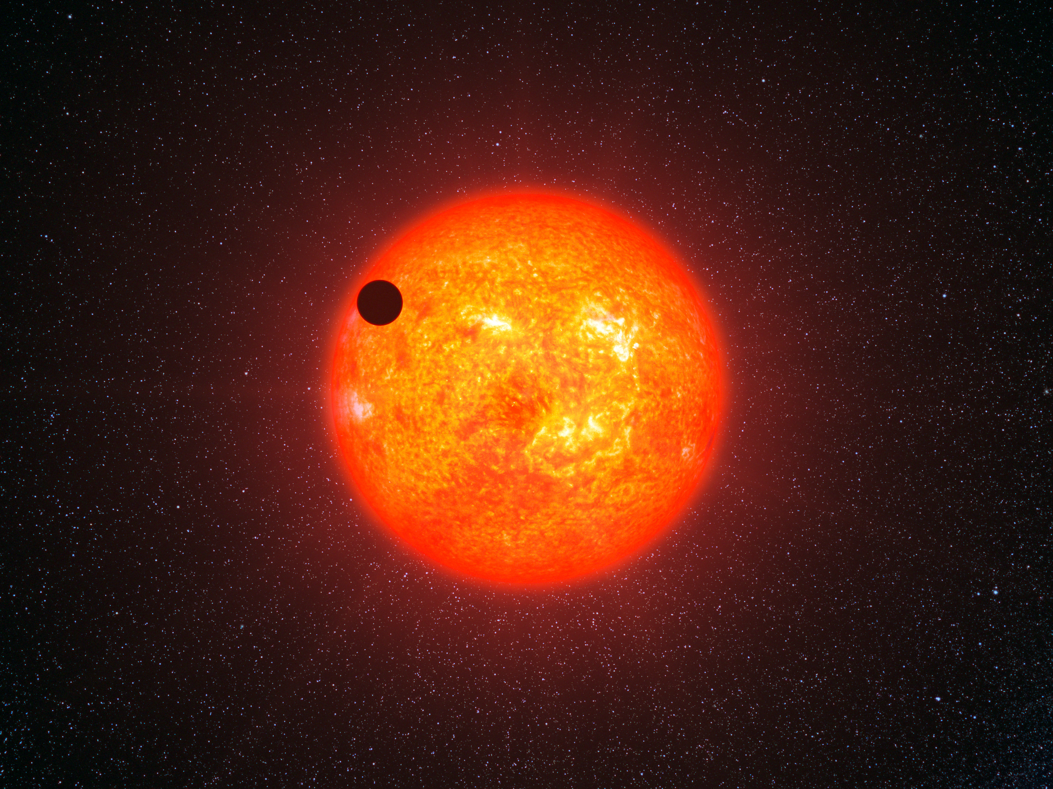 This artist’s impression shows the super-Earth exoplanet GJ 1214b passing in front of its faint red parent star. This is the first super-Earth exoplanet to have had its atmosphere analysed. The exoplanet, orbiting a small star only 40 light-years away from us, has a mass about six times that of the Earth. GJ 1214b appears to be surrounded by an atmosphere that is either dominated by steam or blanketed by thick clouds or hazes.